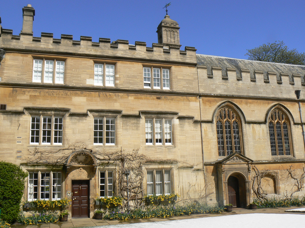 The chapel (right) and Principal's lodgings (left) at Jesus College, Oxford